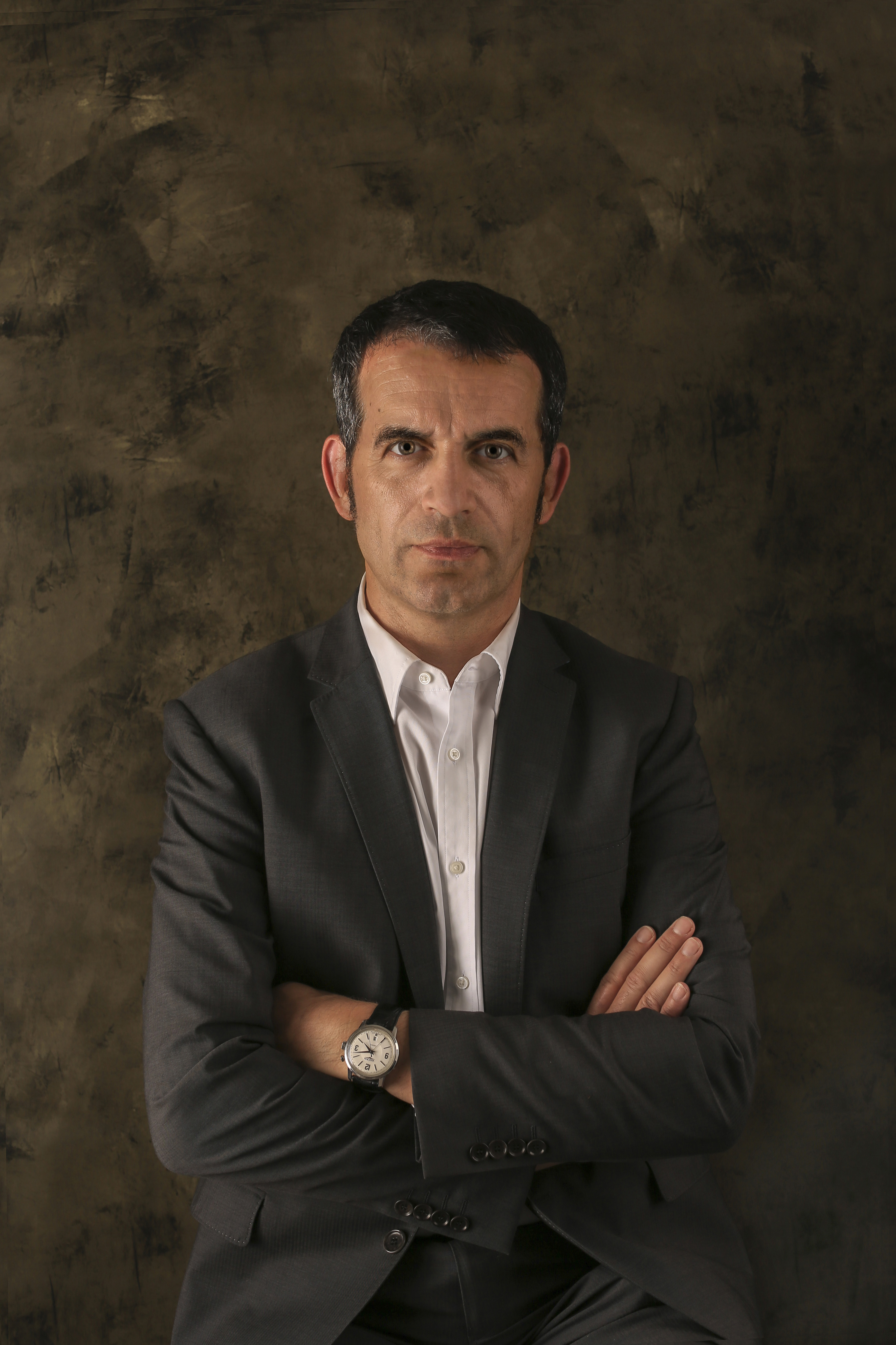 F.Narboni composer